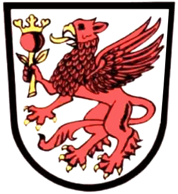 Coat of arms of Holzappel